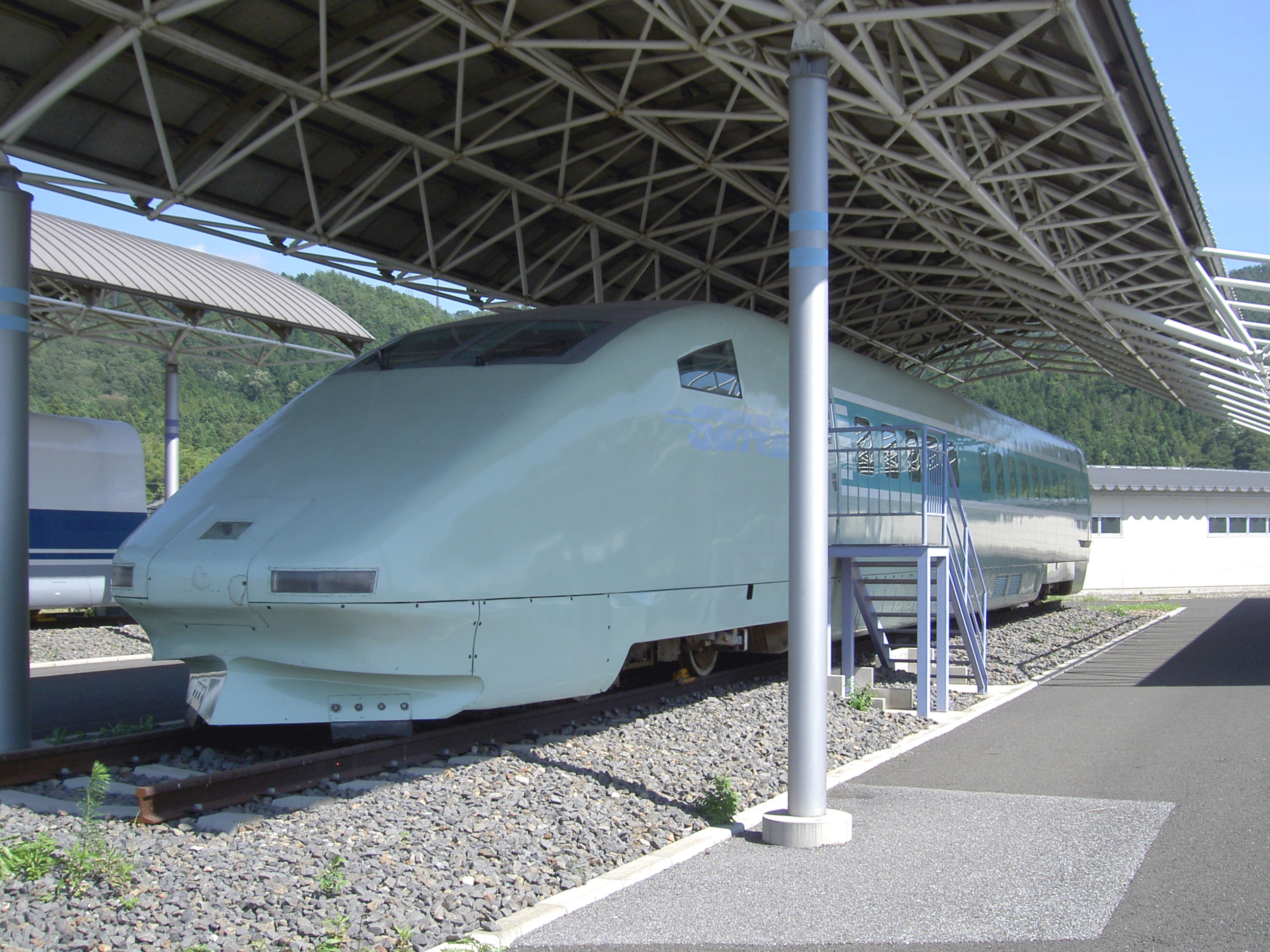 Preserved JR East "STAR21" experimental shinkansen car 952-1 at the RTRI large-scale wind tunnel facility in Maibara, Shiga